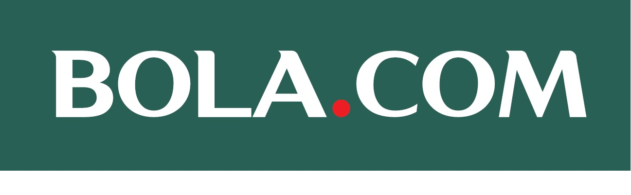 It's a new logo for represent from 2020 and beyond. It's also used to mobile version, instagram, twitter, and facebook.